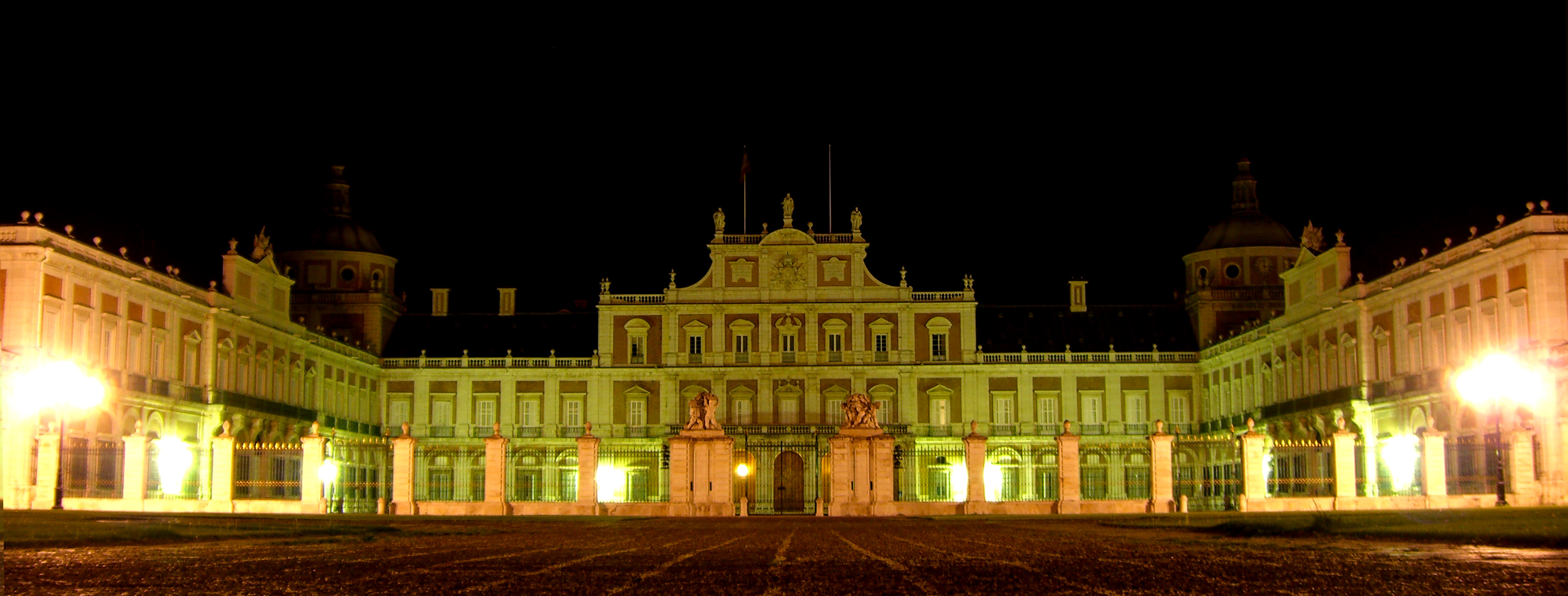 Night view of the Royal Palace of Aranjuez (Community of Madrid, Spain).